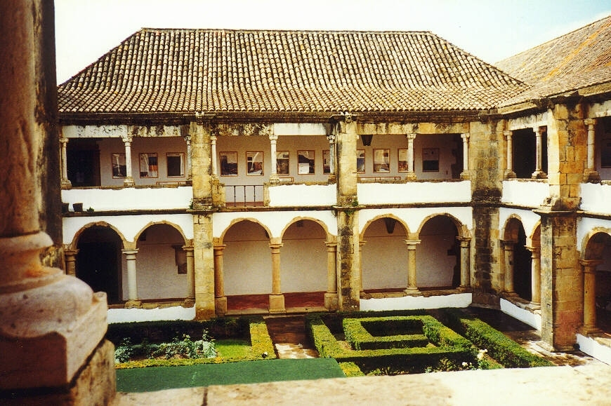 Cloisters in the "Convento de Nossa Senhora da Assunção", home of the Museu Municipal of Faro in Portugal.